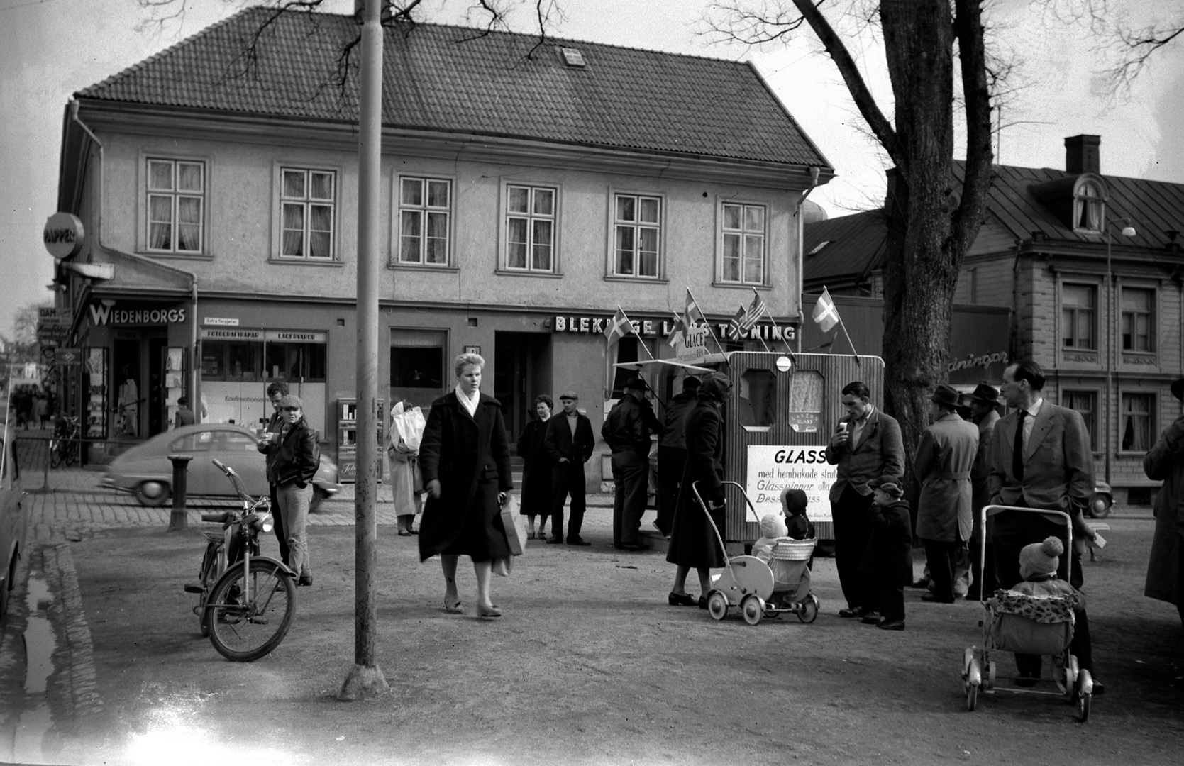 A picture from the Collections of Blekinge museum that shows the main Square of Ronneby during the 1950-1960's. The Picture shows the road Östra Torggatan with a Saab 92 passing by an a earlier stand.